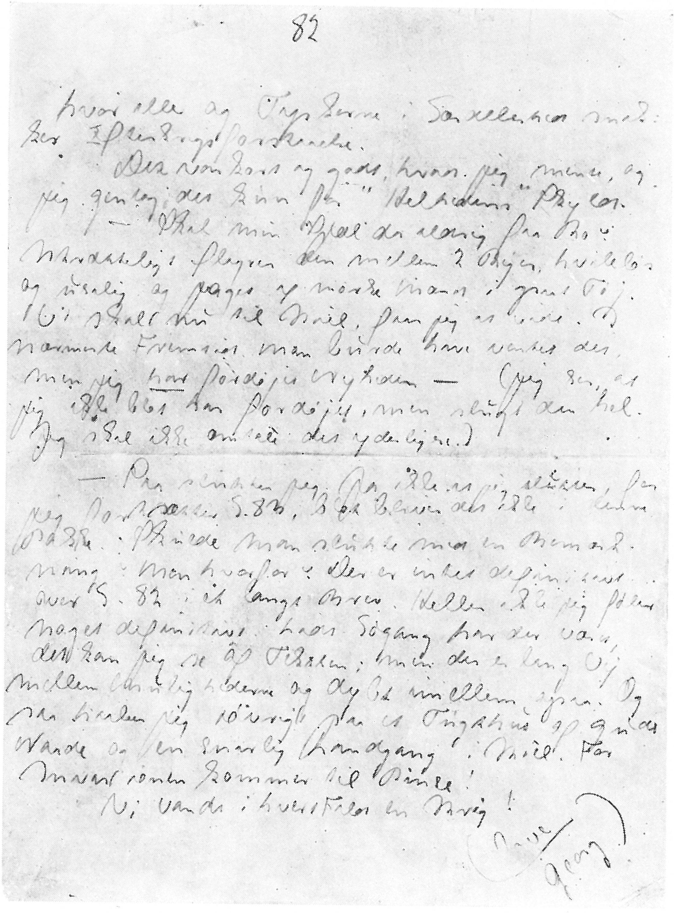 Page of the diary of the author, from his book.